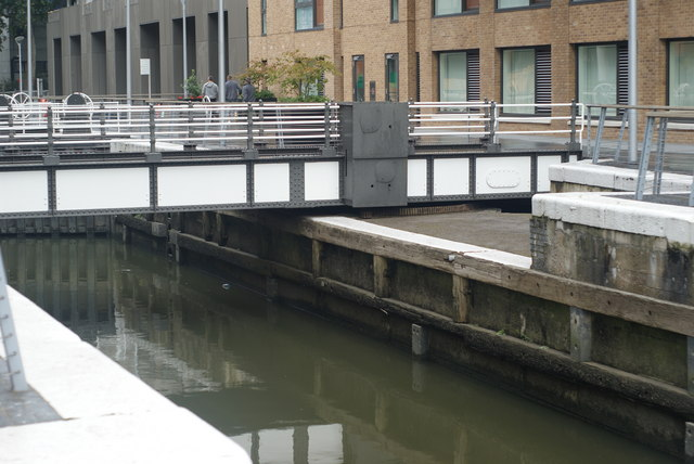 Grosvenor Canal, London Swing bridge above the bottom lock.